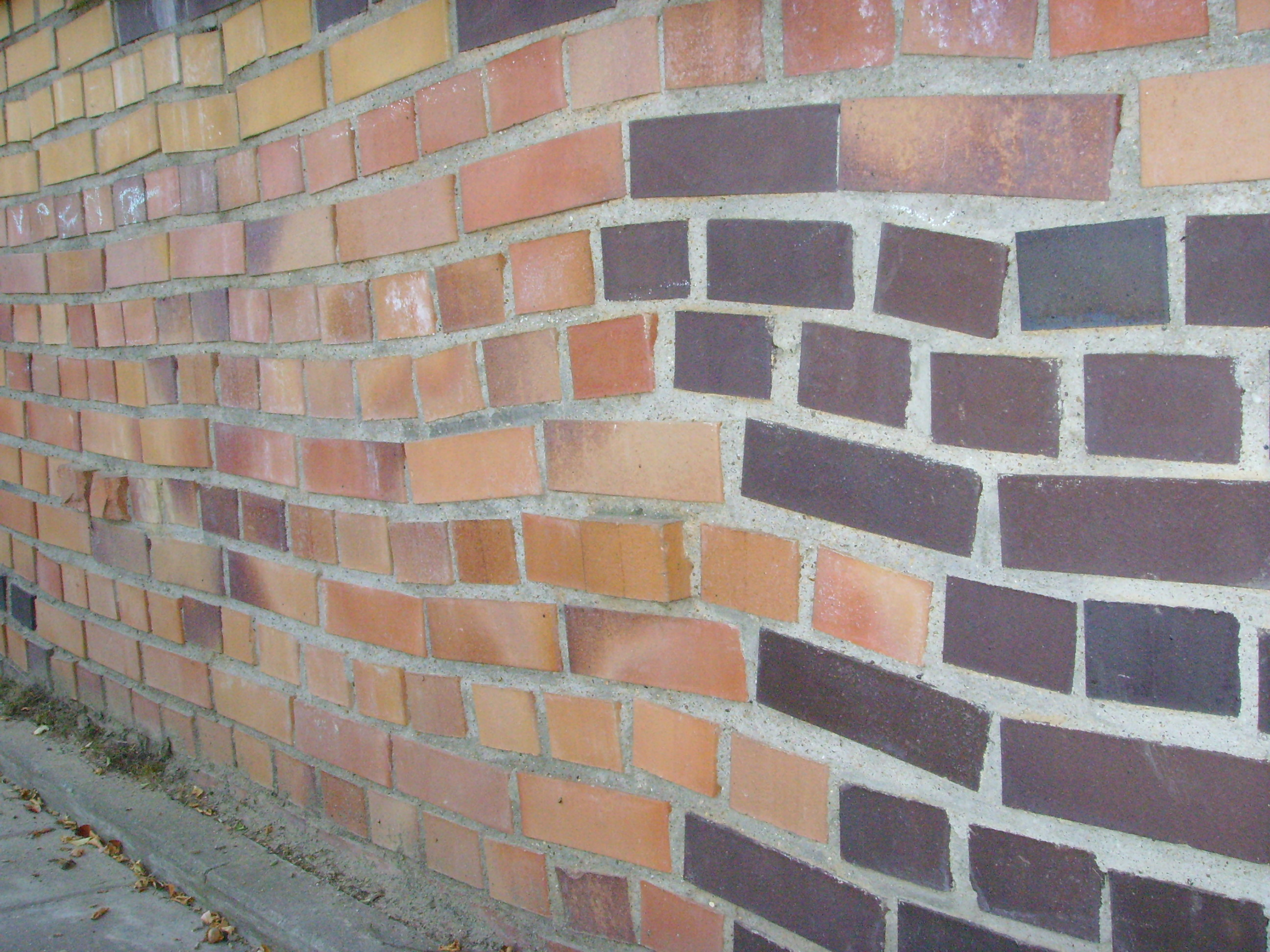 Municipal Kindergarten in Frankfurt am Main-Heddernheim, projected by Friedensreich Hundertwasser outer wall, with intentionally irregular layed bricks this photo was taken by User:Gerbil from de.Wikipedia in September 2006